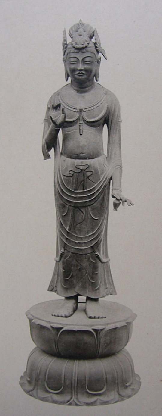 Kannon(Avalokitesvara) or Yumetagae Kannon(a.k.a. Yumechigai Kannon), Bronze gilt(most worn out), about ACE 7-8th century, total height 88 cm, Horyuji Great Treasure Gallery, Nara,, Japan , Its common name derives from the belief that the statue could change bad dreams into good dreams.